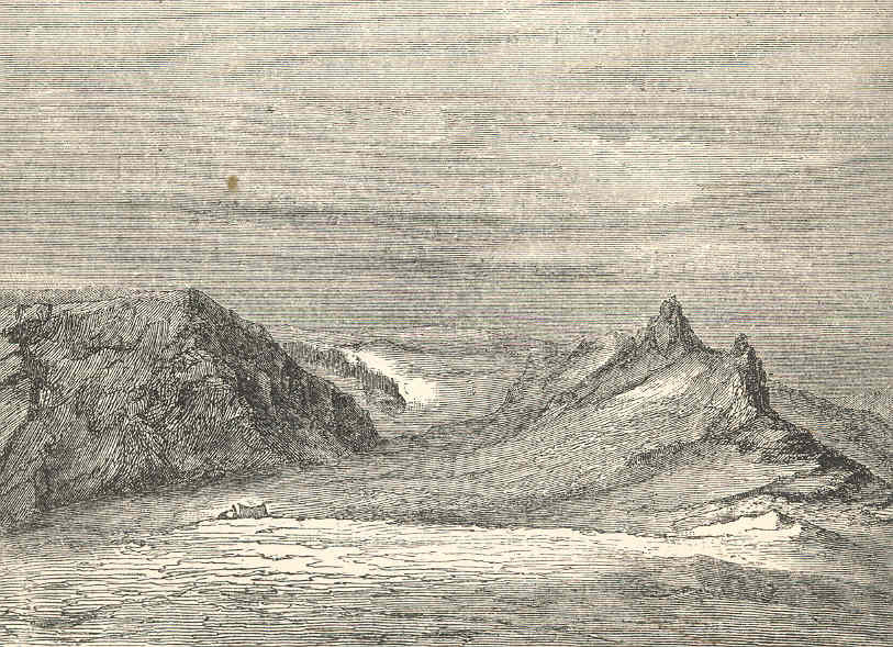 Depot on Kuhn Island Subject: Supplies and stores, Kuhn Island (Greenland) Geographic Subject: Greenland--Kuhn Island Tag: Polar